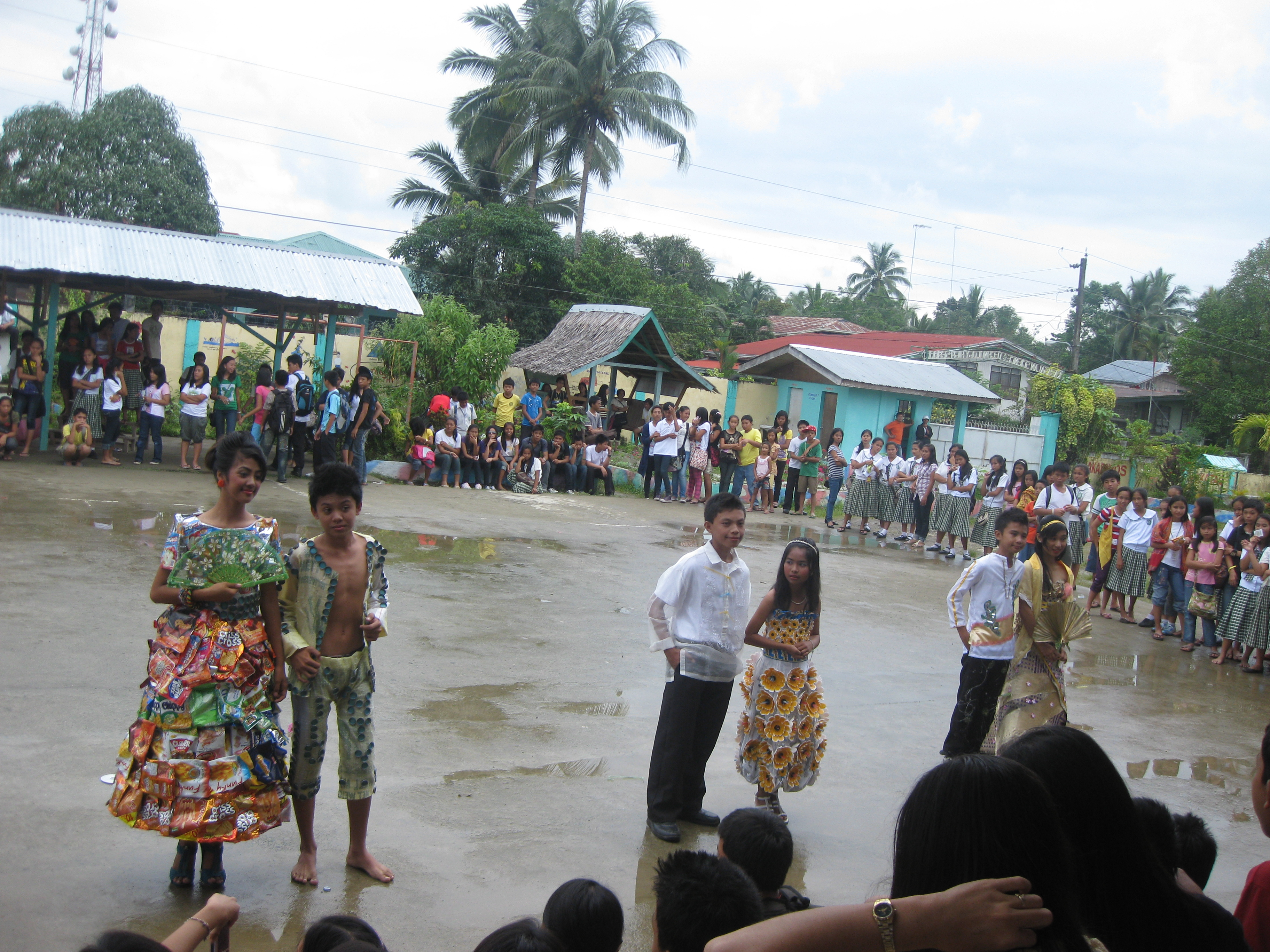 Students presenting their recycled costumes during the celebration of "buwan ng wika"